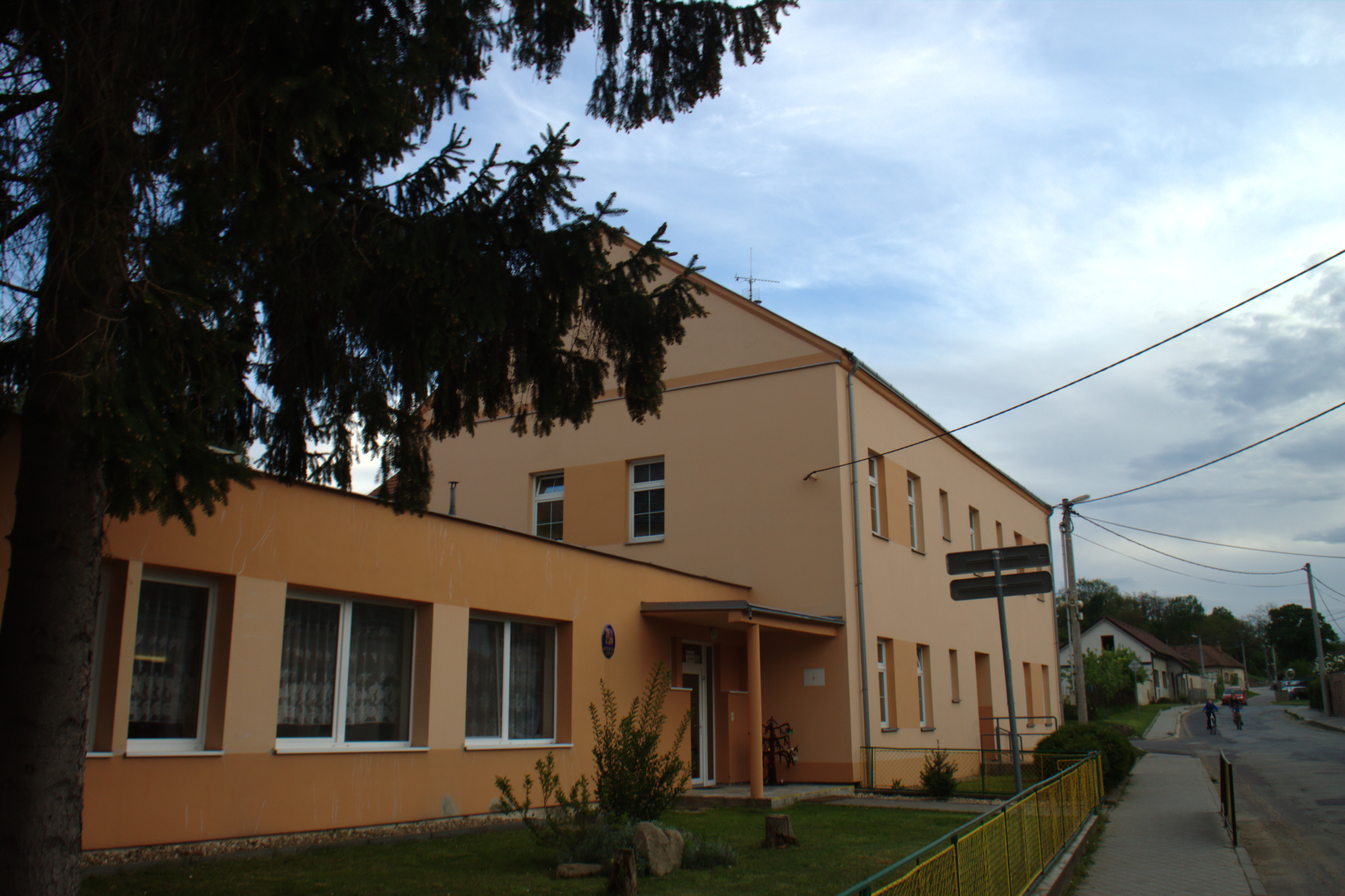 One of the buildings in the village of Borotice, South Moravian Region, CZ